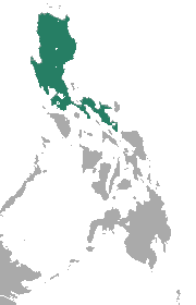 Luzon Fruit Bat (Otopteropus cartilagonodus) range